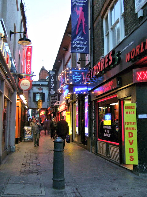 Walker's Court, Soho This alley leads from the end of Berwick Street into Brewer Street. Despite its restricted dimensions it represents the heart of sleaze, with its bars, clubs, shops, peepshows, tattoo-parlours all focussed on the same commodity, sex, and all persuasions are catered for.